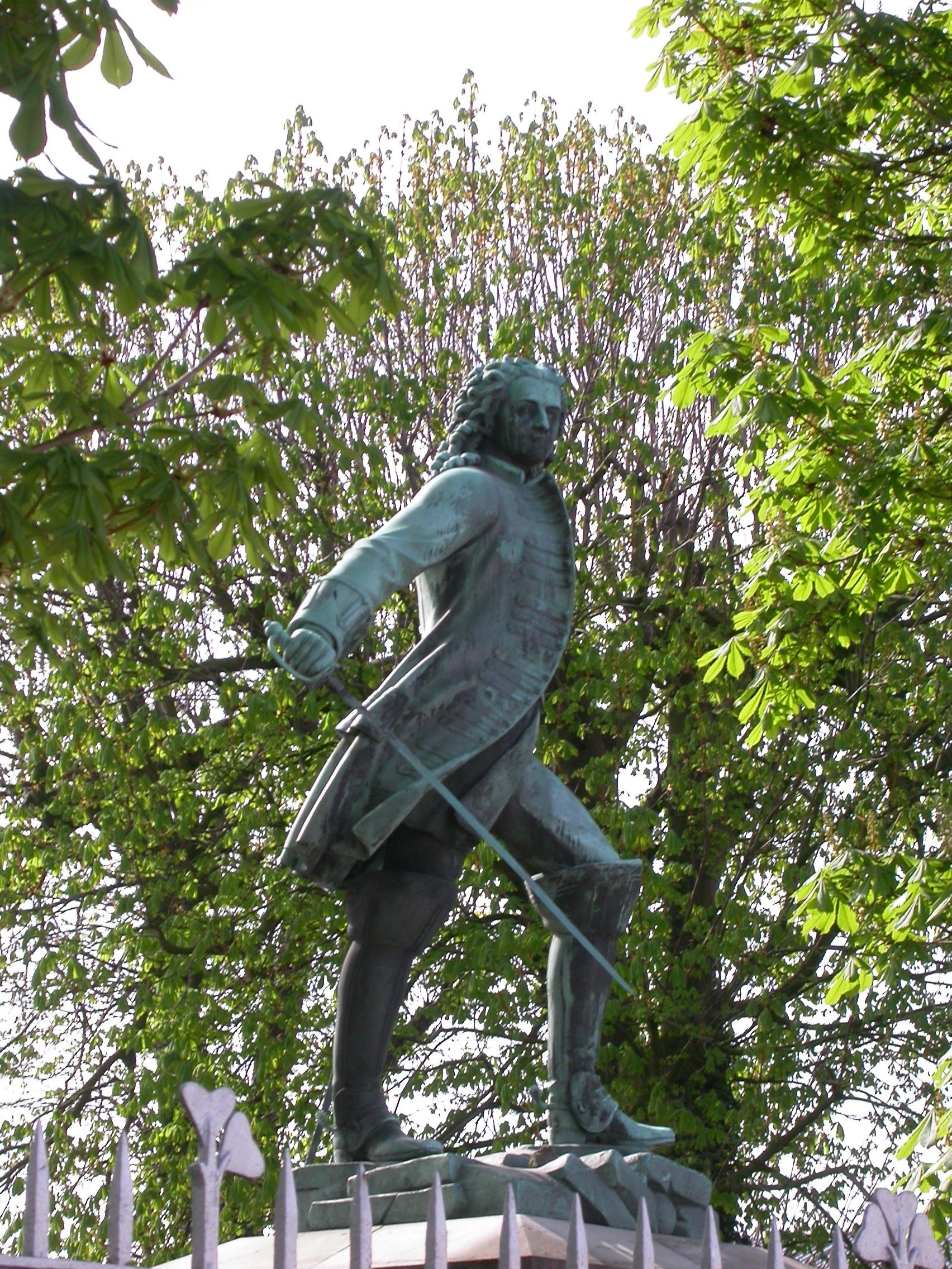 Dealbh Phadraig Shairseal, Plas na hAirdeaglaise, Luimneach